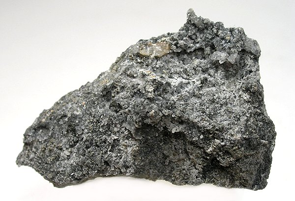 Tellurium Locality: Emperor Mine, Vatukoula, Tavua Gold Field, Viti Levu, Fiji (Locality at ) several very small, sub-mm crystals are scattered sparsely about and a good micromount could be made! nice reference specimen for the micro collector 5.5 x 3.5 x 0.7 cm